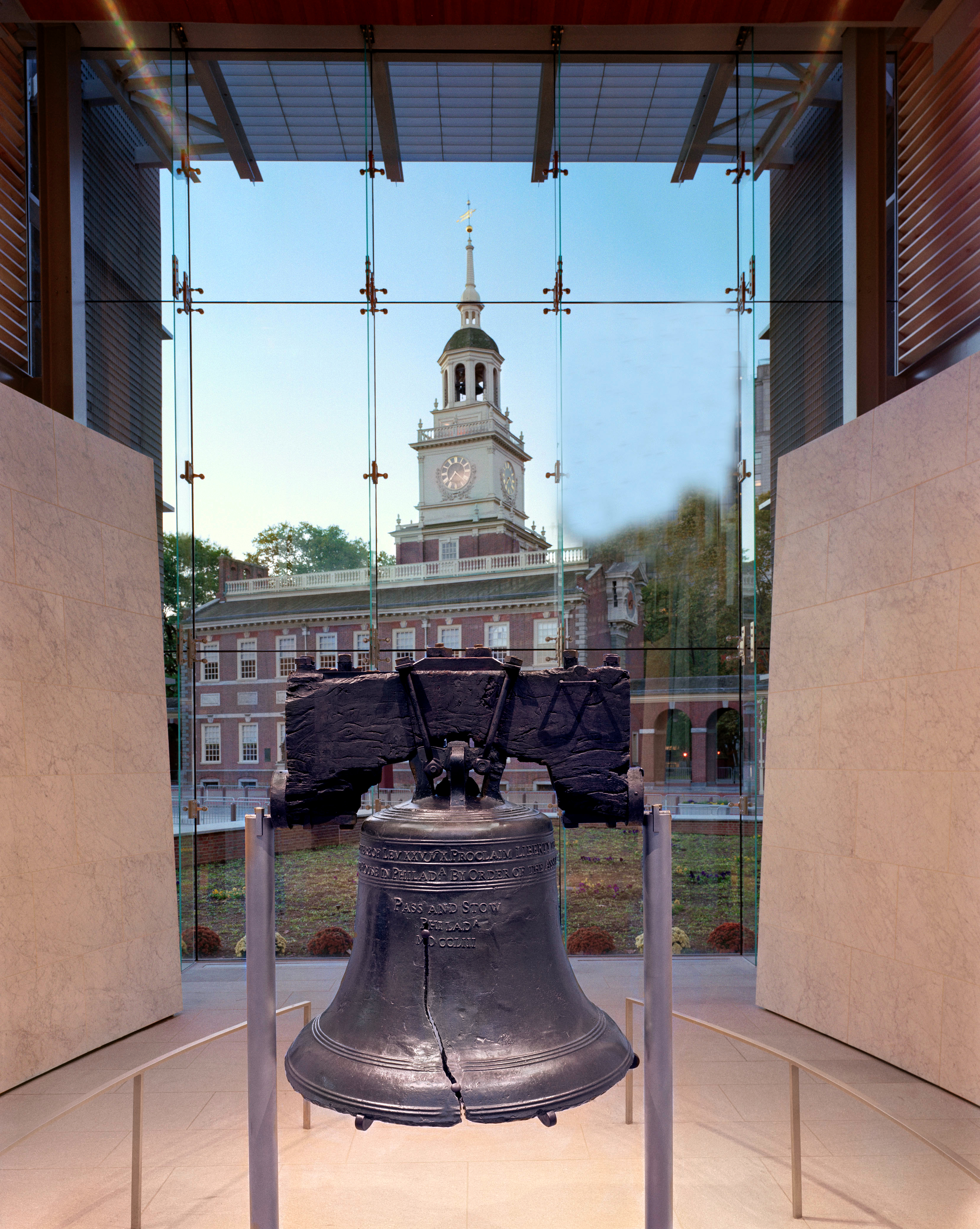 Liberty Bell, Independence National Historical Park